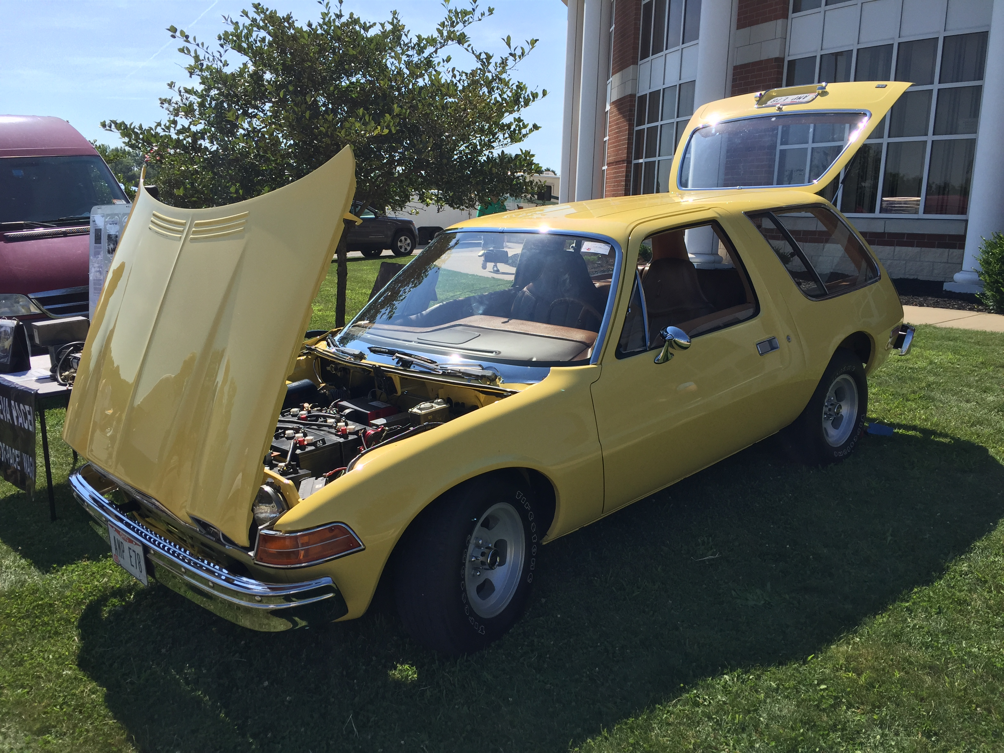 Electric Vehicle Associates (EVA) 1978 "Change of Pace" station wagon. A converted AMC (American Motors Corporation) Pacer two-door wagon finished in yellow with standard bench seat interior. Power comes from twenty batteries housed in two-packs (front and rear), with a 26 kW (at 3,000 rpm) electric motor mated to a three-speed automatic transmission. Picture taken at the American Motors Owners Association (AMO) annual convention that was held July 2015 near Cleveland, Ohio.